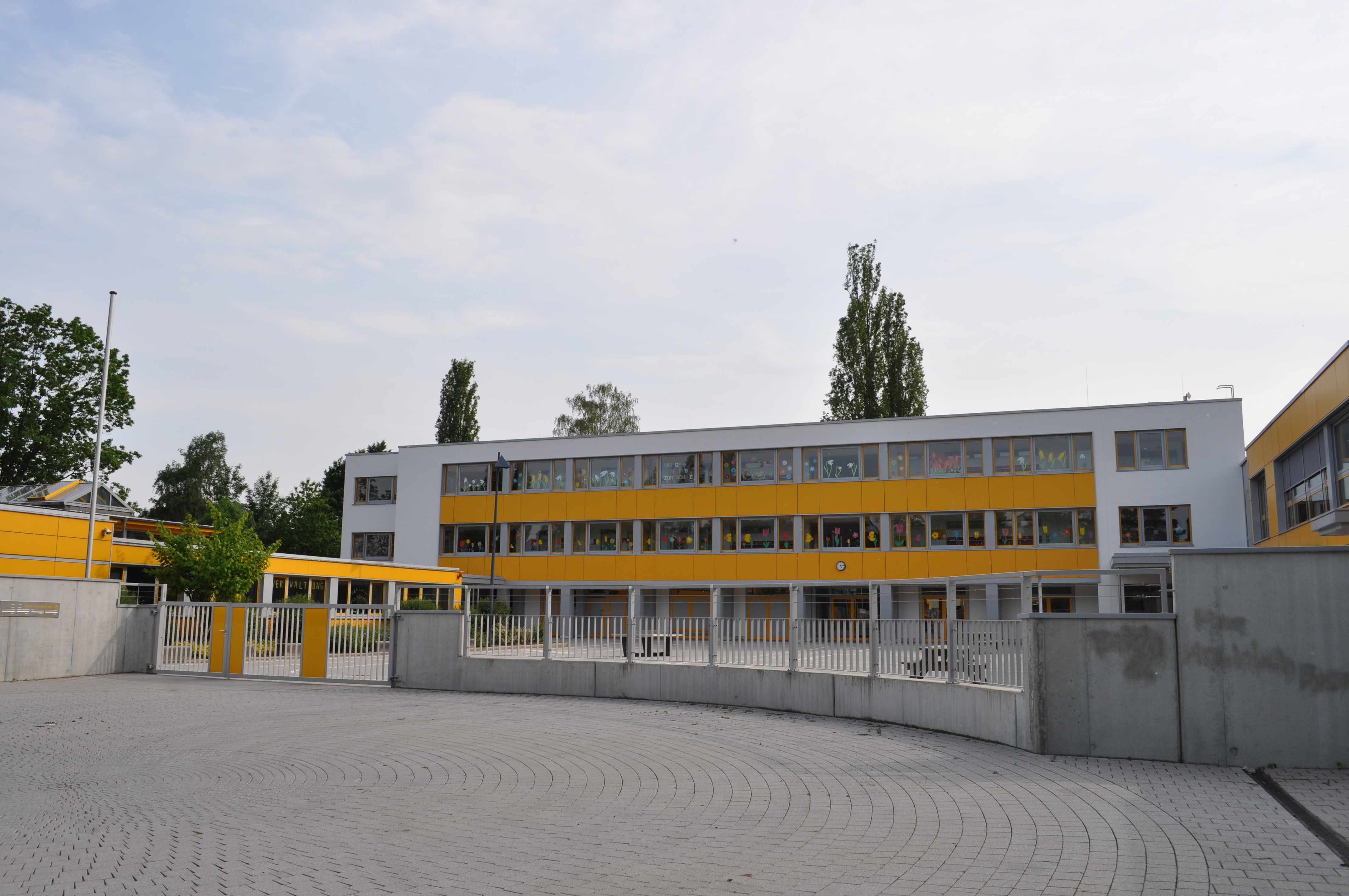 Elementary school in Weißkirchen